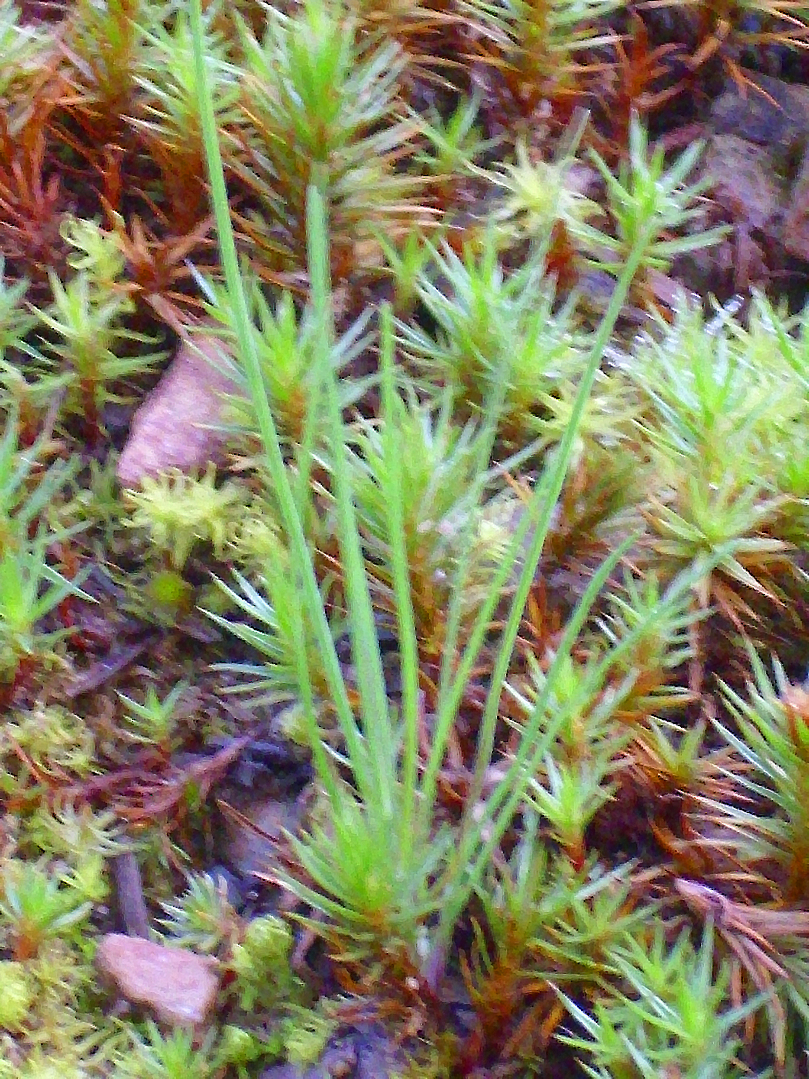 Isoetes setaceum habit, Valderrepisa Sierra Madrona, Spain